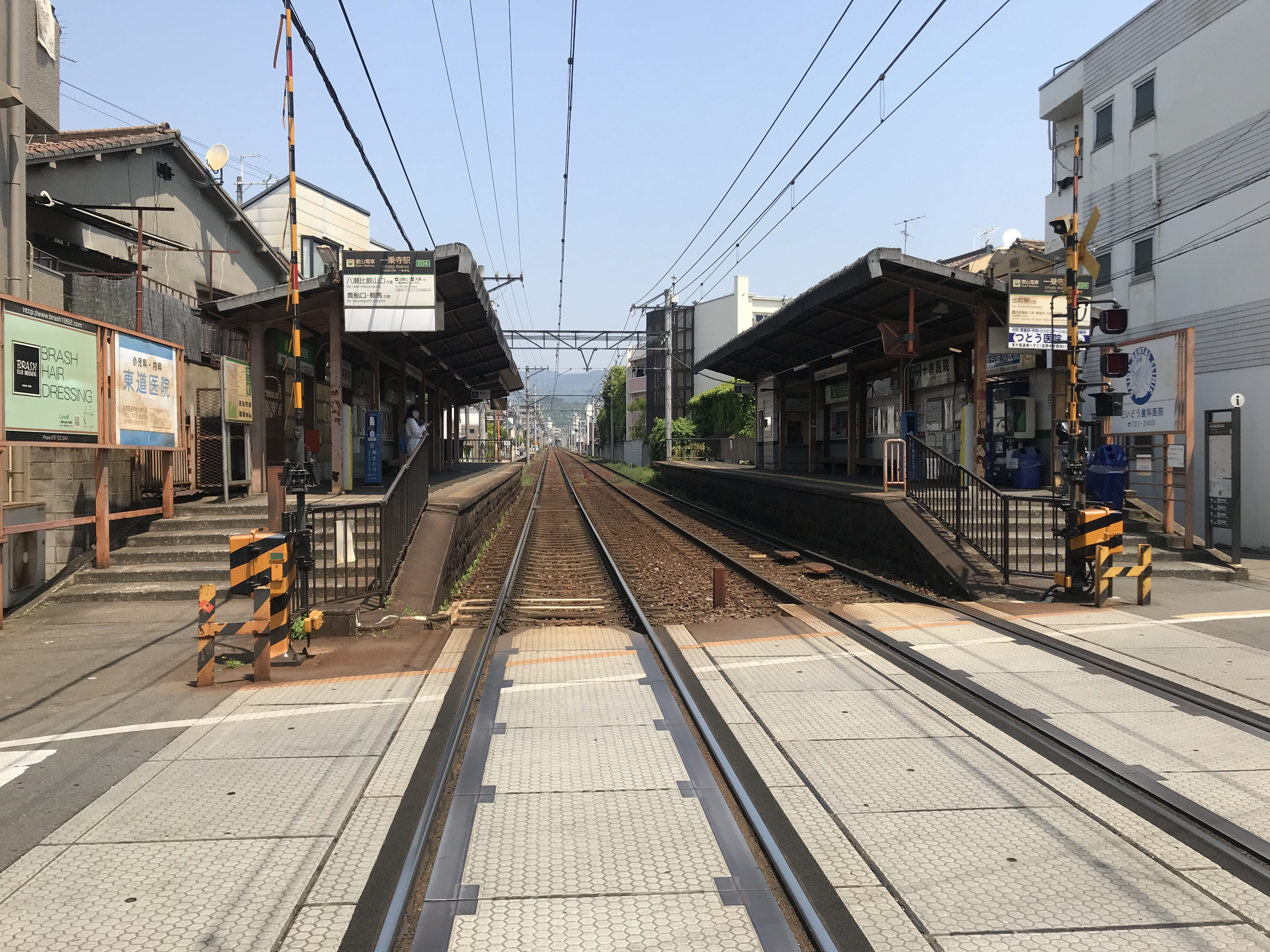 Eizan Electric Railway Ichijoji station overview